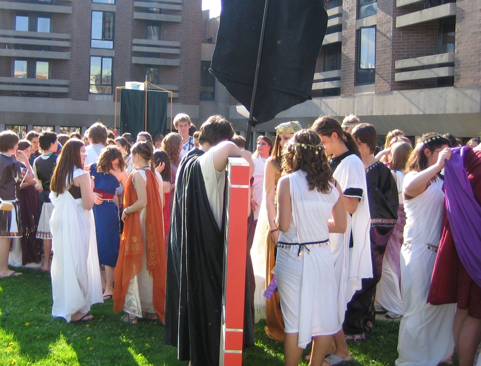 People gathering outside for the Ontario Student Classics Conference Pompa